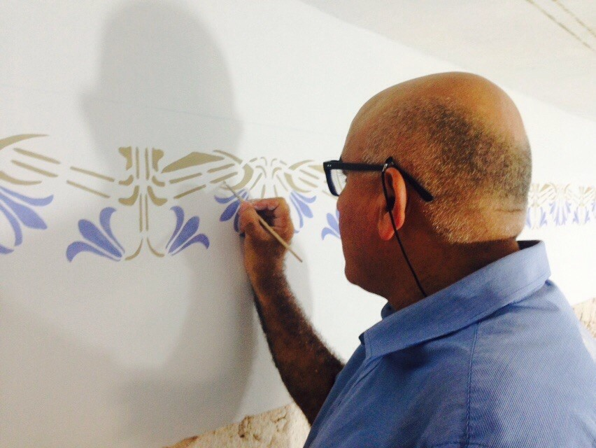 שי פרקש בשיחזור ציור סטנסיל ברחוב אחד העם 20 בתל אביב